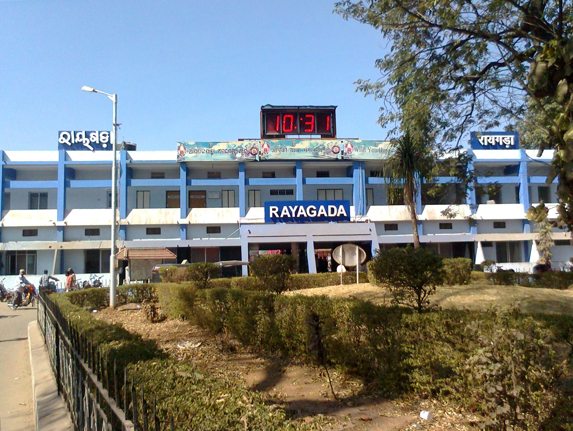 Rayagada Railway Station, Orissa